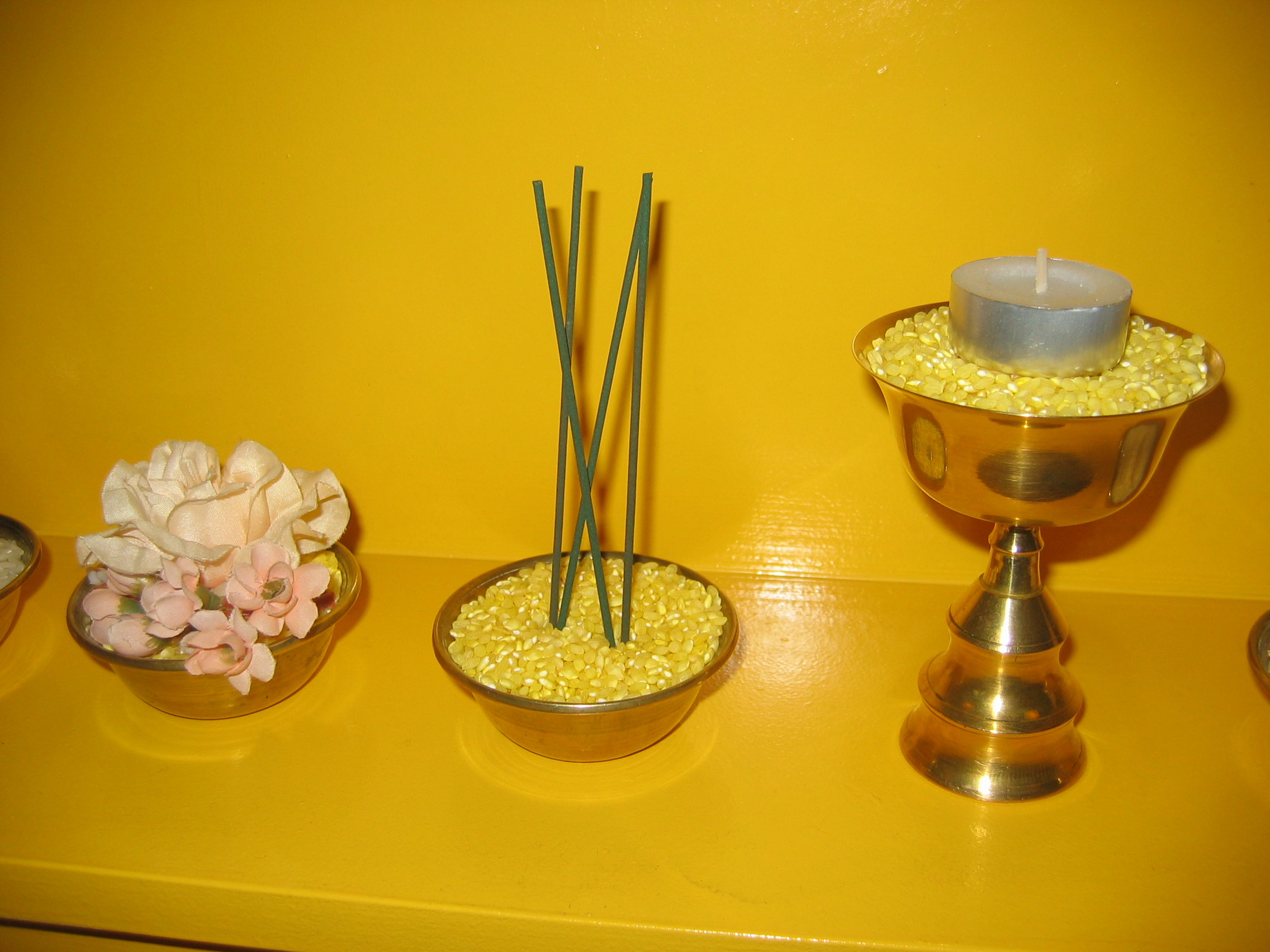 Tibetan Buddhist shrine offerings including candles and incense. Taken in a dharma centre in London of the Karma Kagyu school.